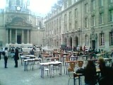 Sorbonne during CPE. On 25th april tables were out in the courtyard